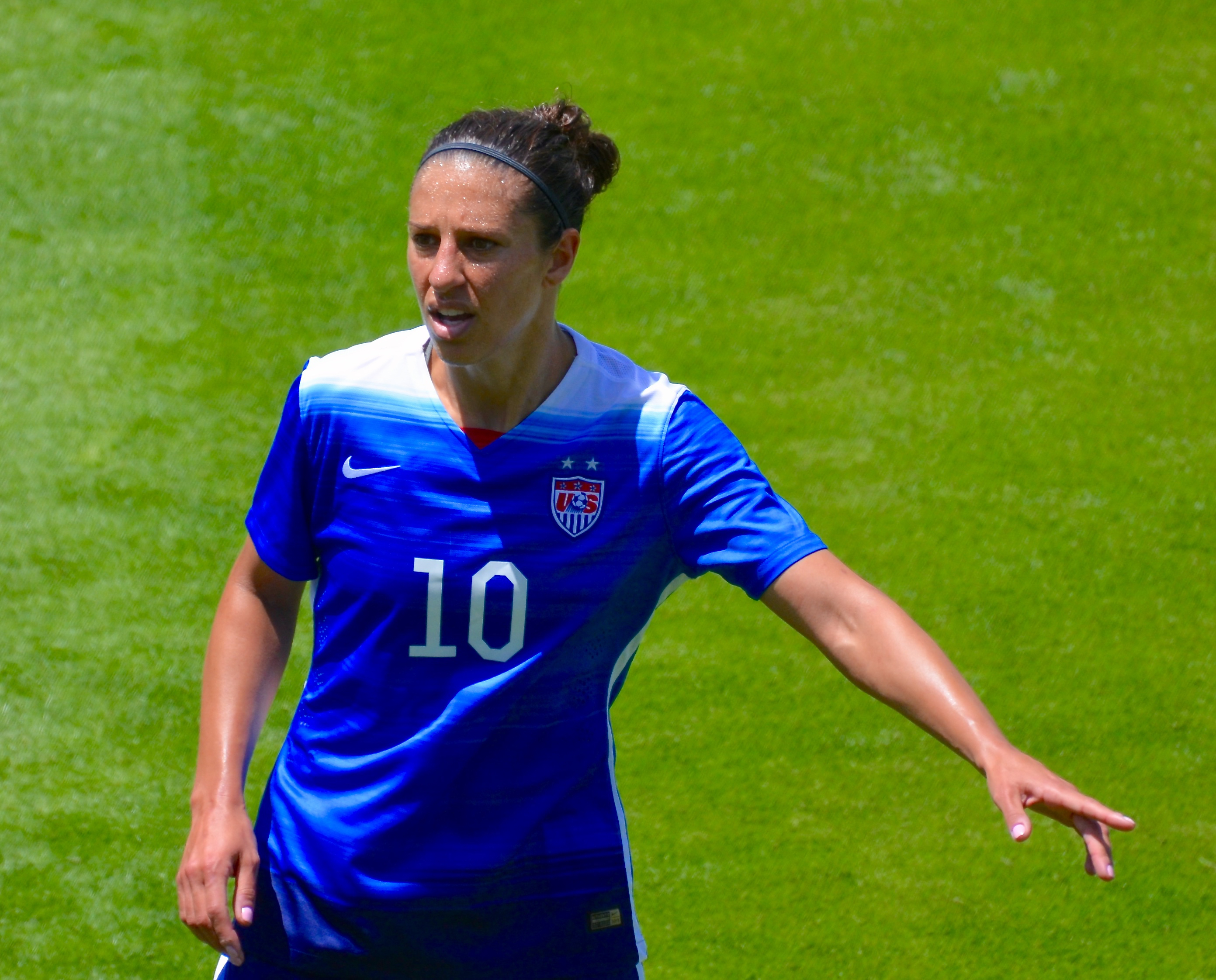 Carli Lloyd playing for the US Women's National Team in San Jose, California on 10 May 2015.